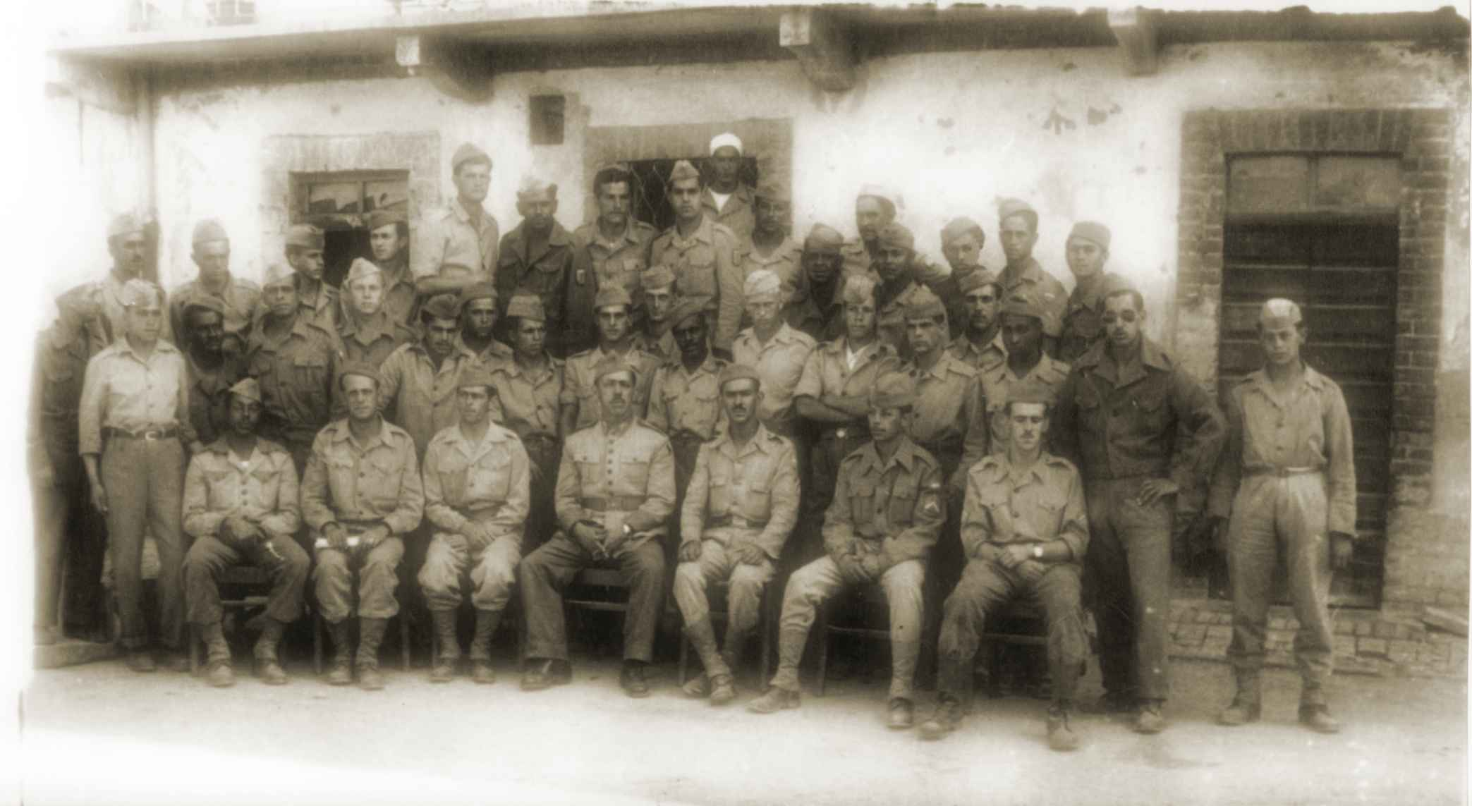 A company of III Battallion of 11th Regiment of Brazilian Expedicionary Force in Italy during World War II.